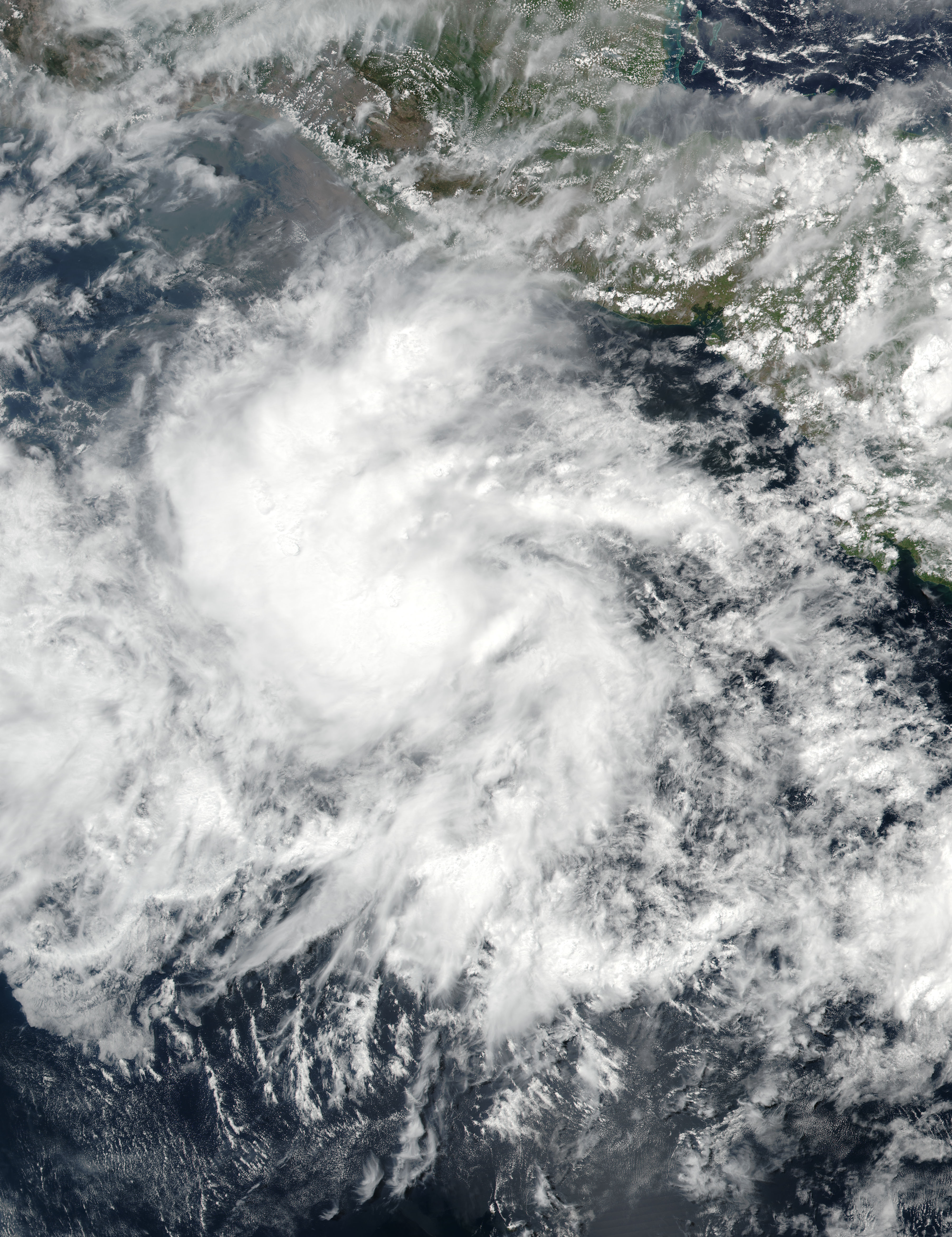 Tropical Storm Adrian (01E) off Central America